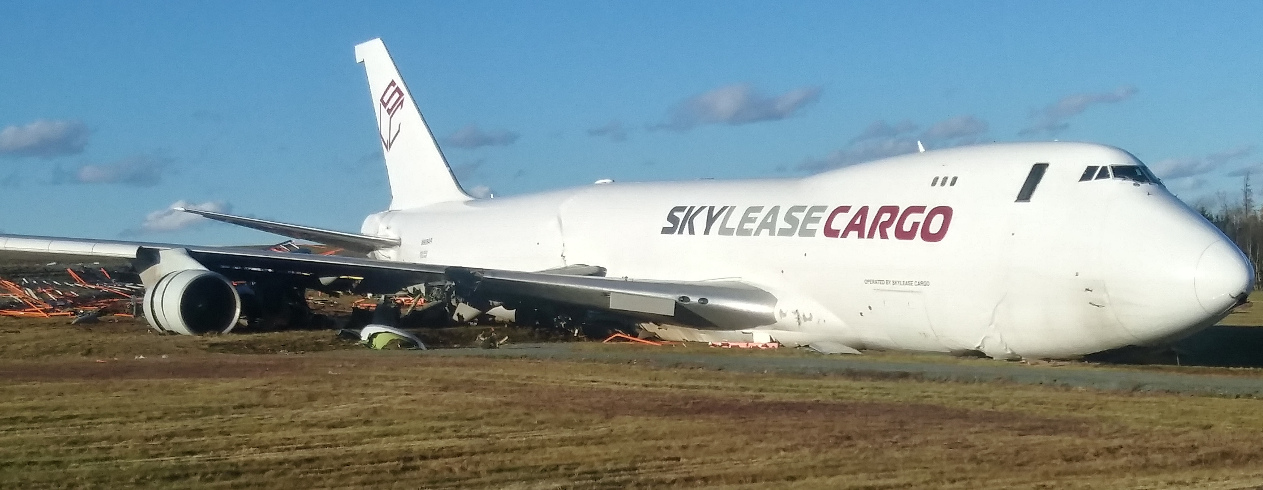 Sky lease 747 overrun CYHZ